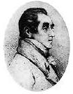 Engraving of chemist Charles Hatchett.